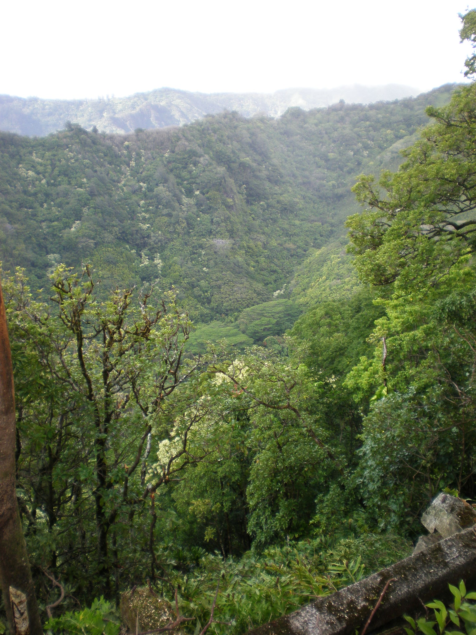 View toward Nuʻuanu from Tantalus Drive, Honolulu, Hawaii